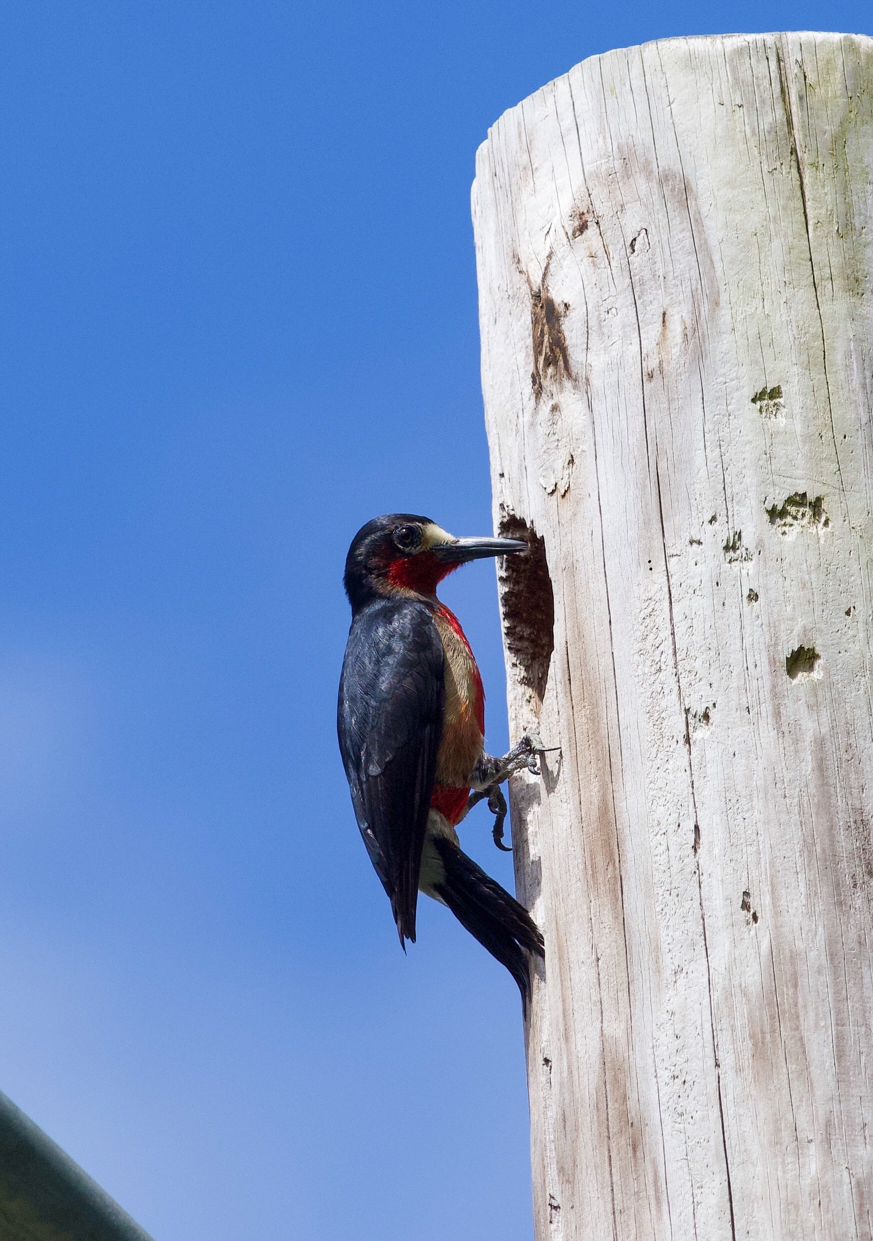 Puerto Rican Woodpecker carving a nest